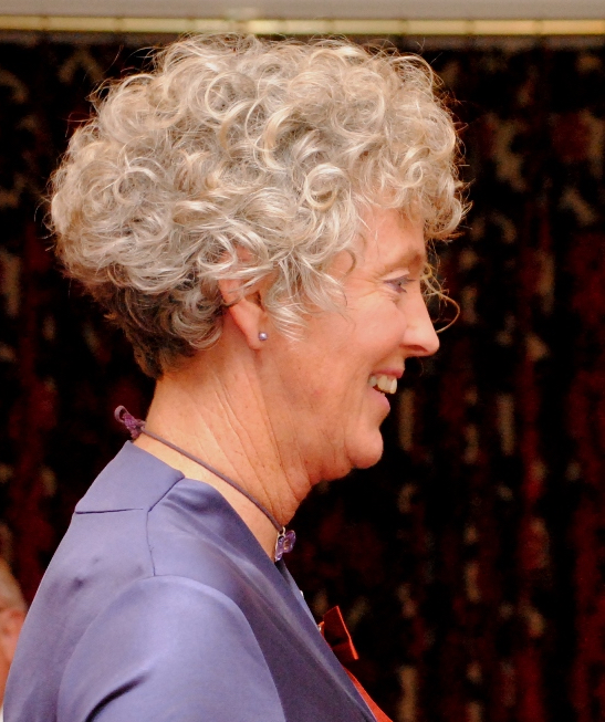 Brenda Perry, after her investiture as MNZM, for services to women's tennis, at Government House, Wellington, on 4 September 2012.